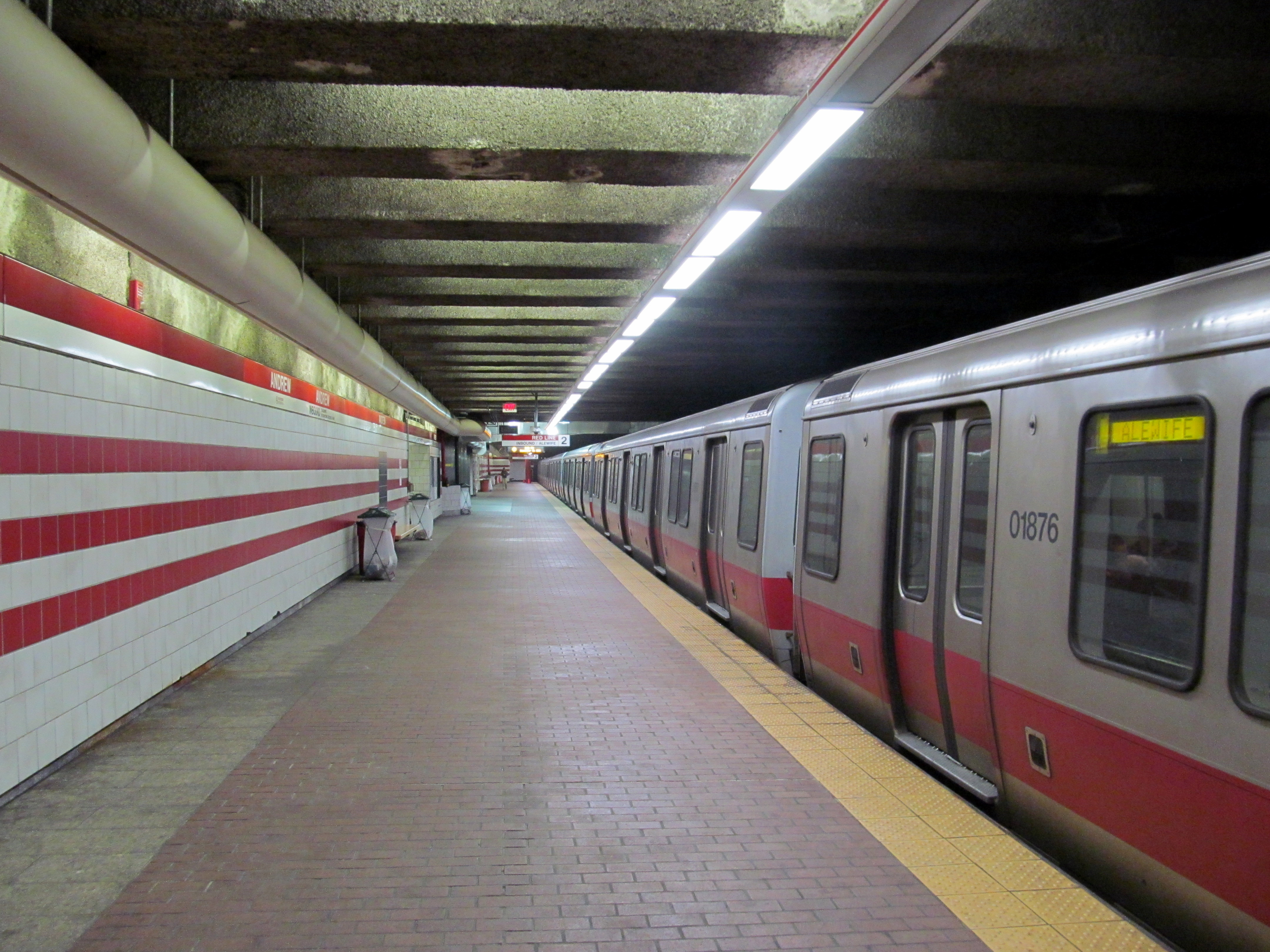 An inbound train at Andrew station